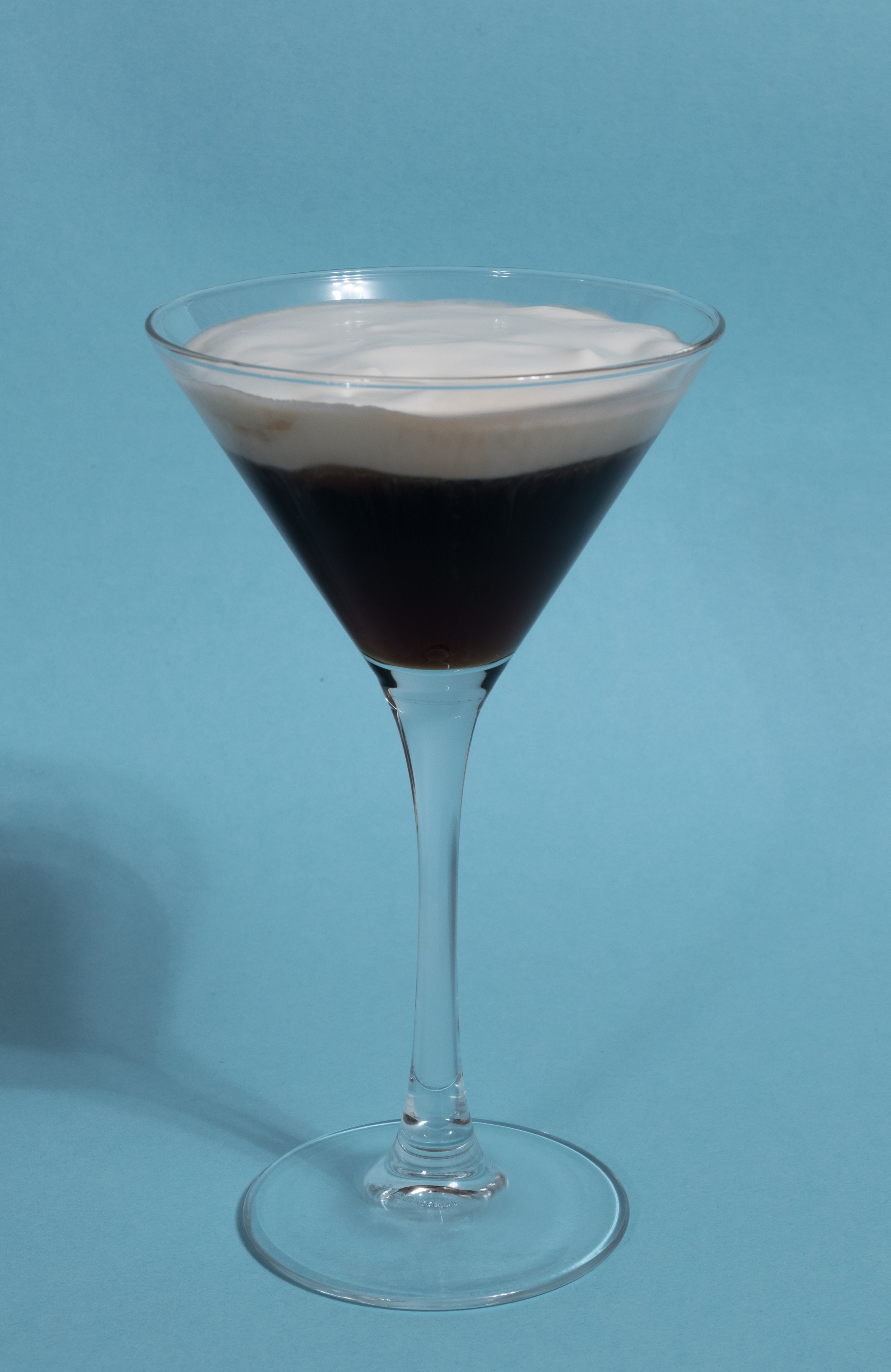 A "White Russian" in a cocktail glass